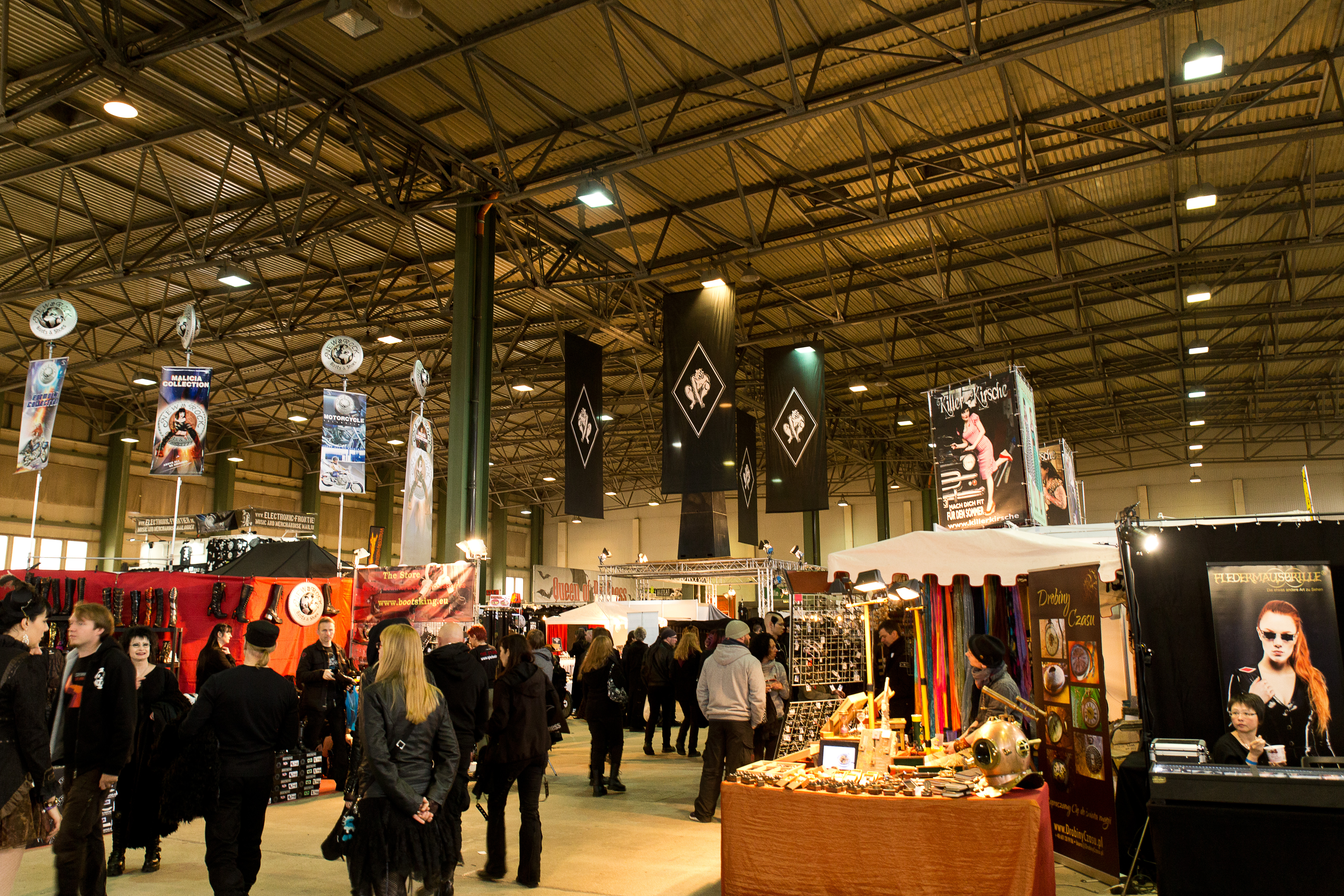 Impressions of the gothic scene fair at the 25. Wave-Gotik-Treffen 2016 in Leipzig/Germany.